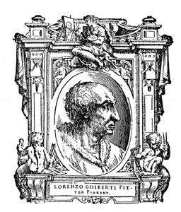 Illustratio from "Le Vite" by Giorgio Vasari, edition of 1568. For the artist portrayed see filename